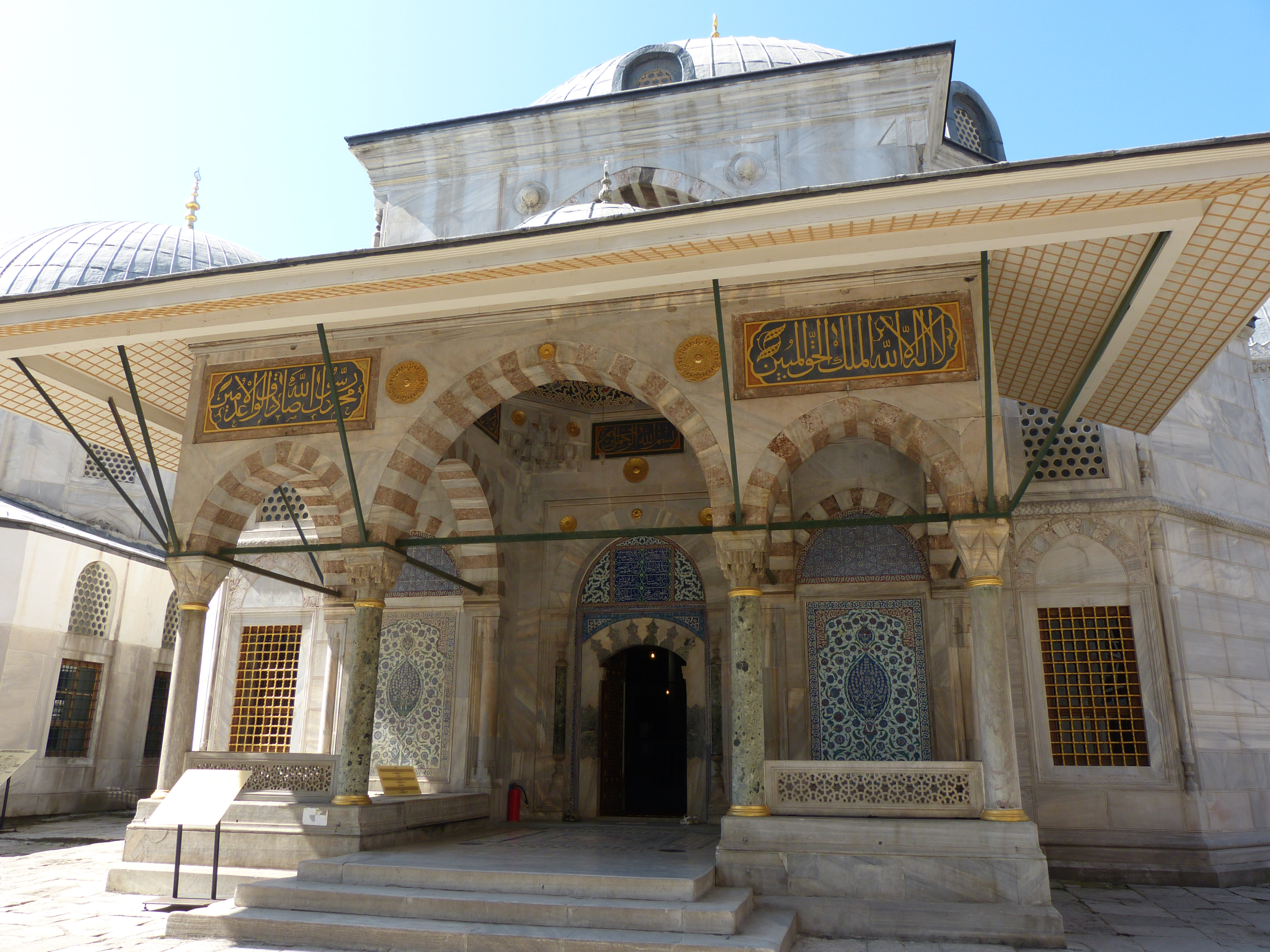 Türbe (Tomb) of Sultan Selim II. (1524–1574)